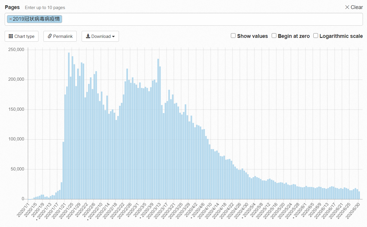 Pageviews Analysis of COVID-19 pandemic in Chinese Wikipedia. From 01 January 2020 to 30 June 2020. 中文（中国大陆）: 中文维基百科条目2019冠状病毒病疫情的页面浏览量统计 ，从2020年1月1日至2020年6月30日。